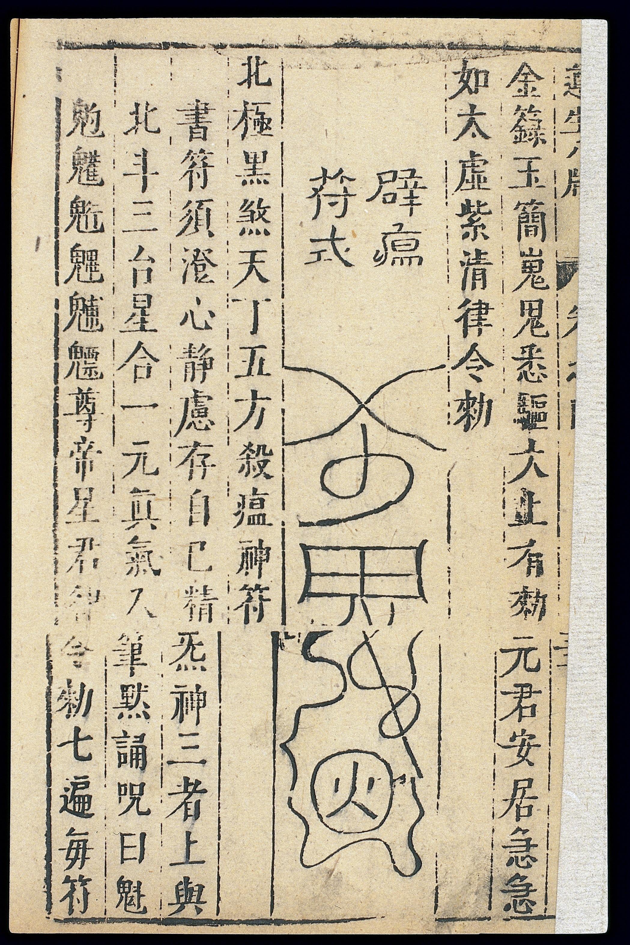 Talisman to ward off plague (Biwen fushi) fromZun sheng ba jian(Eight Texts on Following the Way of Life), a work on 'nourishing life' (yangsheng) by Gao Lian (Ming period, 1368-1644), woodblock edition of 1810 (15th year of the Jiaqing reign period of the Qing dynasty, Geng Wu year).The Eight Texts (jian) into which it is divided are:Qingxiu miaolun(Wondrous discourse on cleansing and repairing),Sishi tiaoshe(Cultivating Health in the Four Seasons),Qiju anle(How to Lead a Safe and Happy Everyday Life),Yannian qubing(How to Prolong Life and Fend Off Disease),Yinzhuan fushi(Food and Diet),Yanxianqingshang(Leisure and Amusements),Lingmi danyao(Wonder-Working Secret Elixirs),Chenwai xiaju(Elevating Oneself Above the Dust [of carnal life]).This talisman comes from 'Cultivating Health in the Four Seasons',juanof Summer. Woodcut